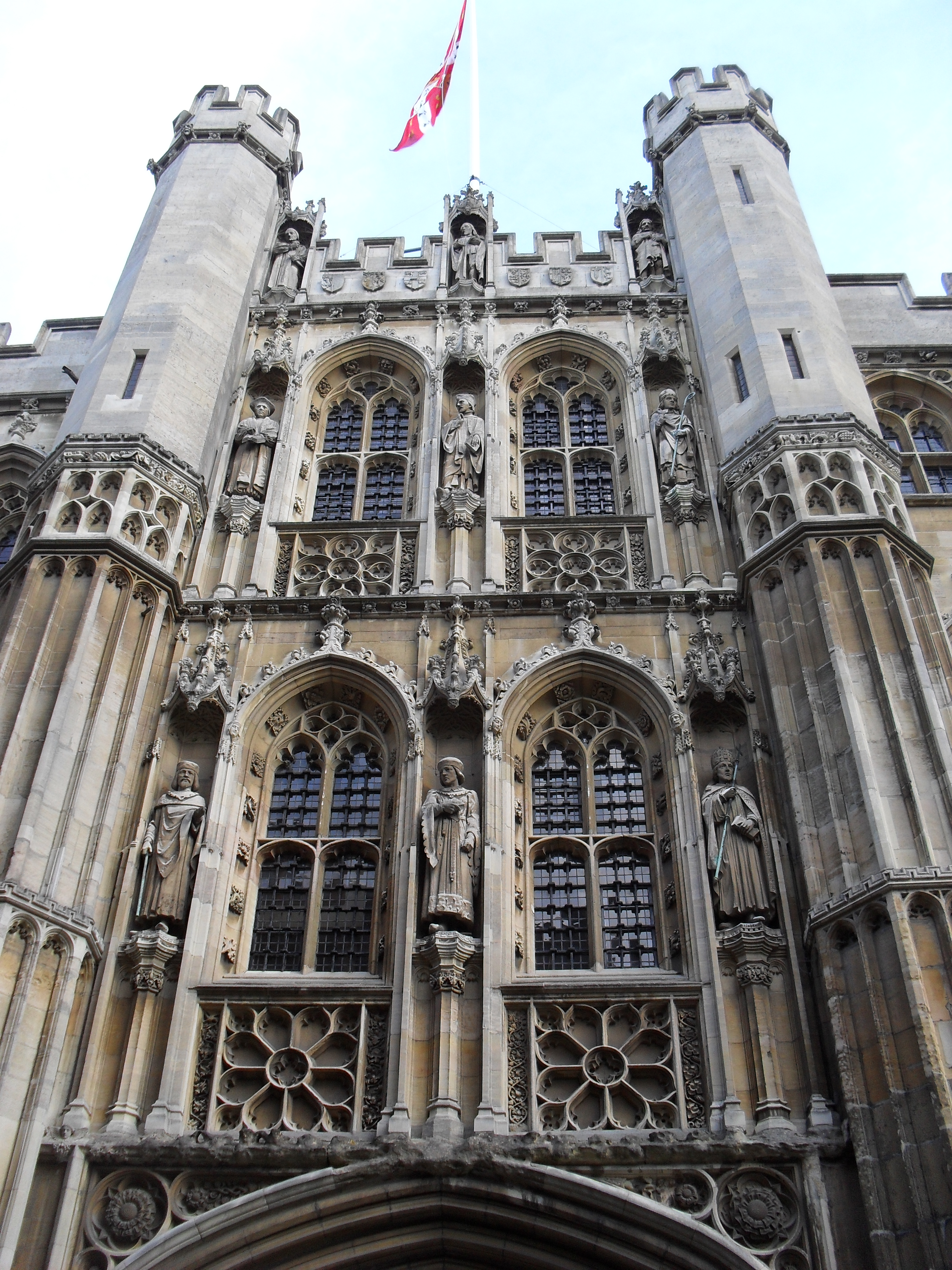 The Old Schools,Cambridge University